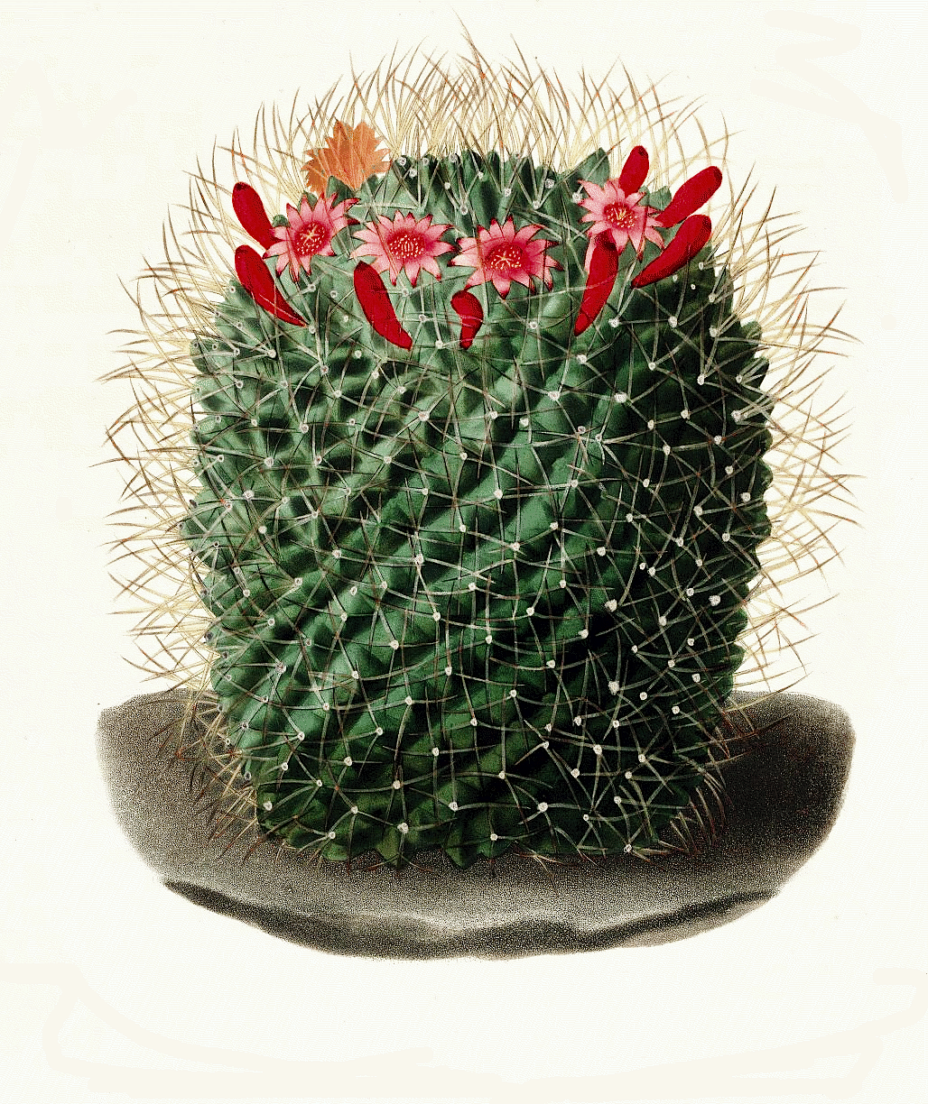 Plate from book